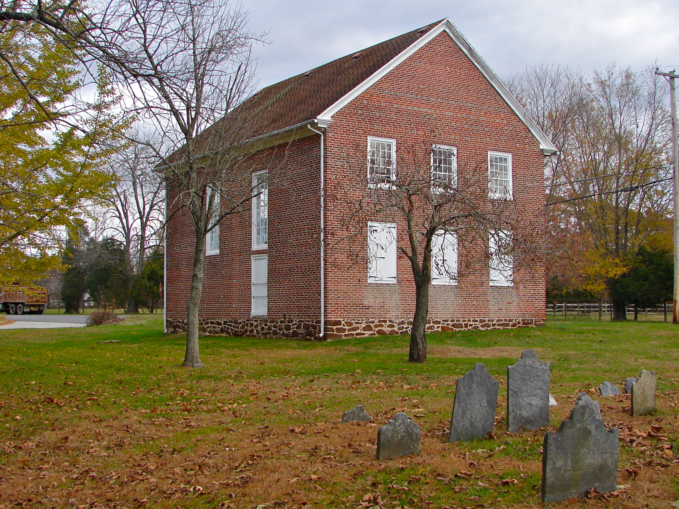 Moravian Church in Glouster County, NJ, South of Swedesboro. On the NRHP since April 3, 1973. On Swedesboro-Sharptown Rd. at corner of Moravian Church Road in Woolwich Township. Note the lack of steeple and exceptionally simple style. 2 entrance doors (male and female) are on the other side; the tall door and tall windows on this side are something of a mystery.